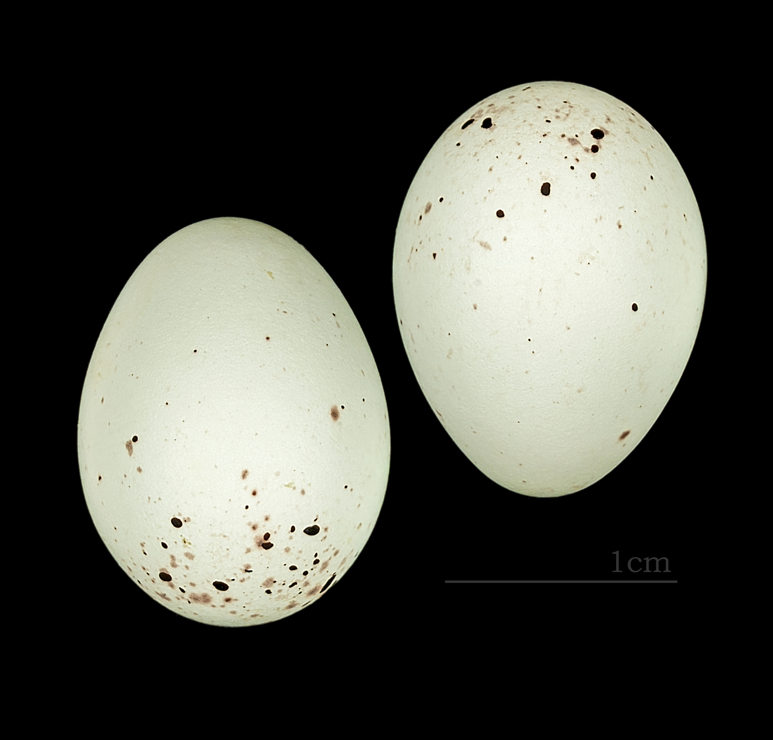 Egg of Black-chinned Siskin. Collection of Jacques Perrin de Brichambaut.